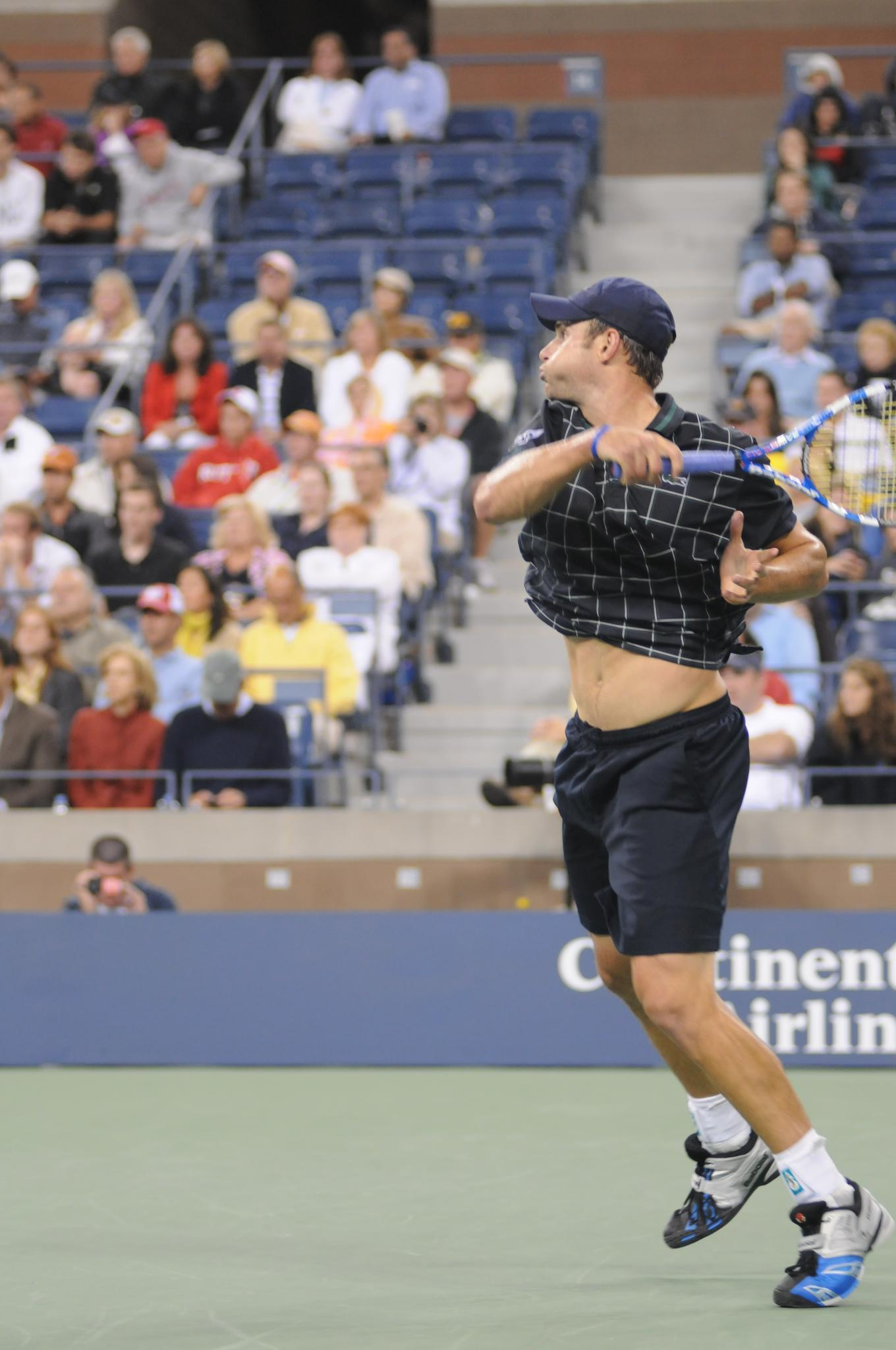 Andy Roddick at the 2009 US Open